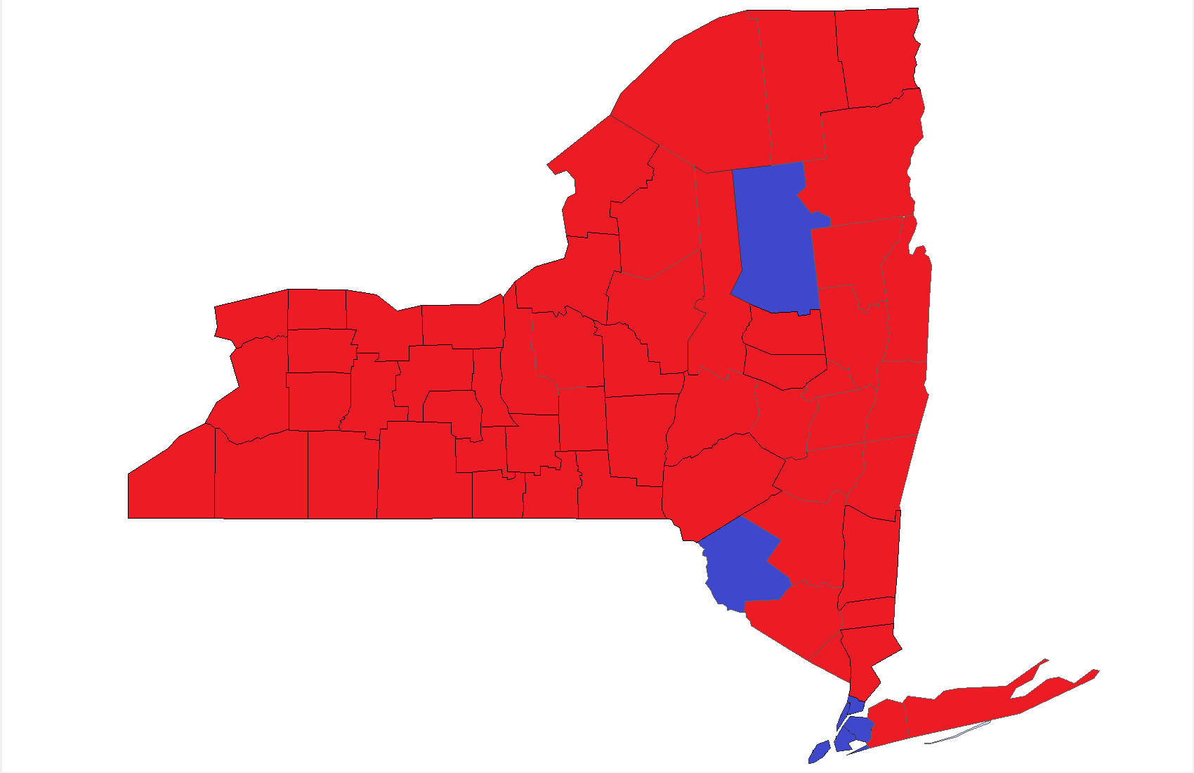 This is the map that was drawn in MS Paint by Jon698 for the 1918 New York gubernatorial election